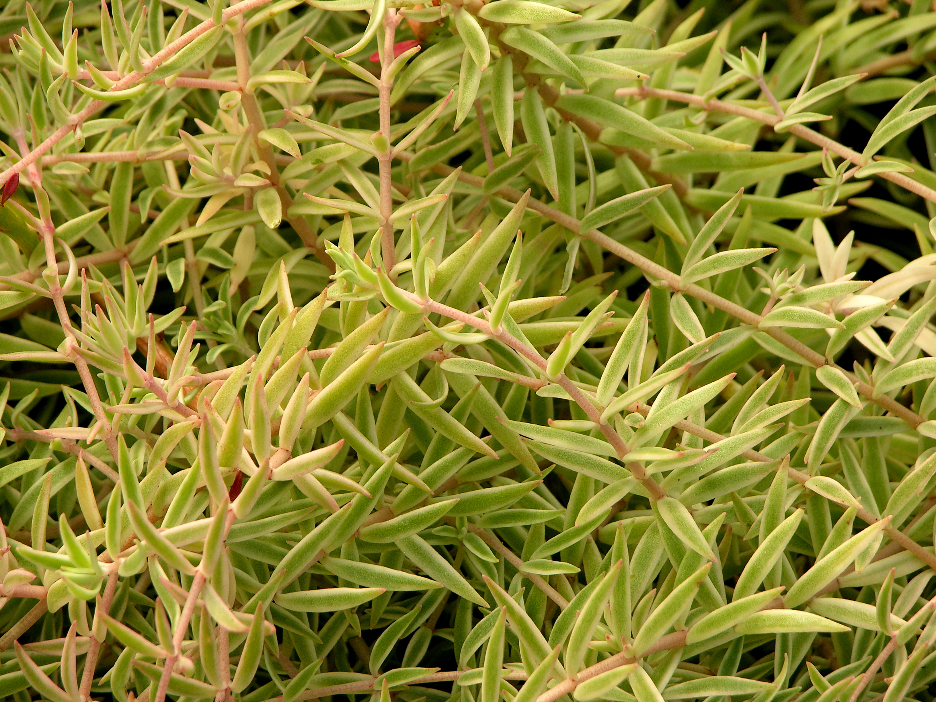 A picture of the Sedum lineare en 'Variegatum' plant. Photo taken at the Chanticleer Garden where it was identified.